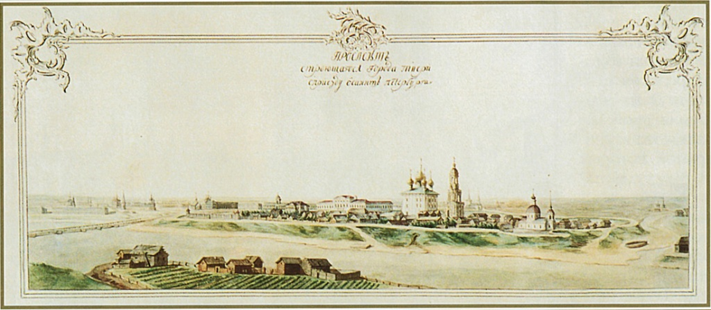 View of Tver